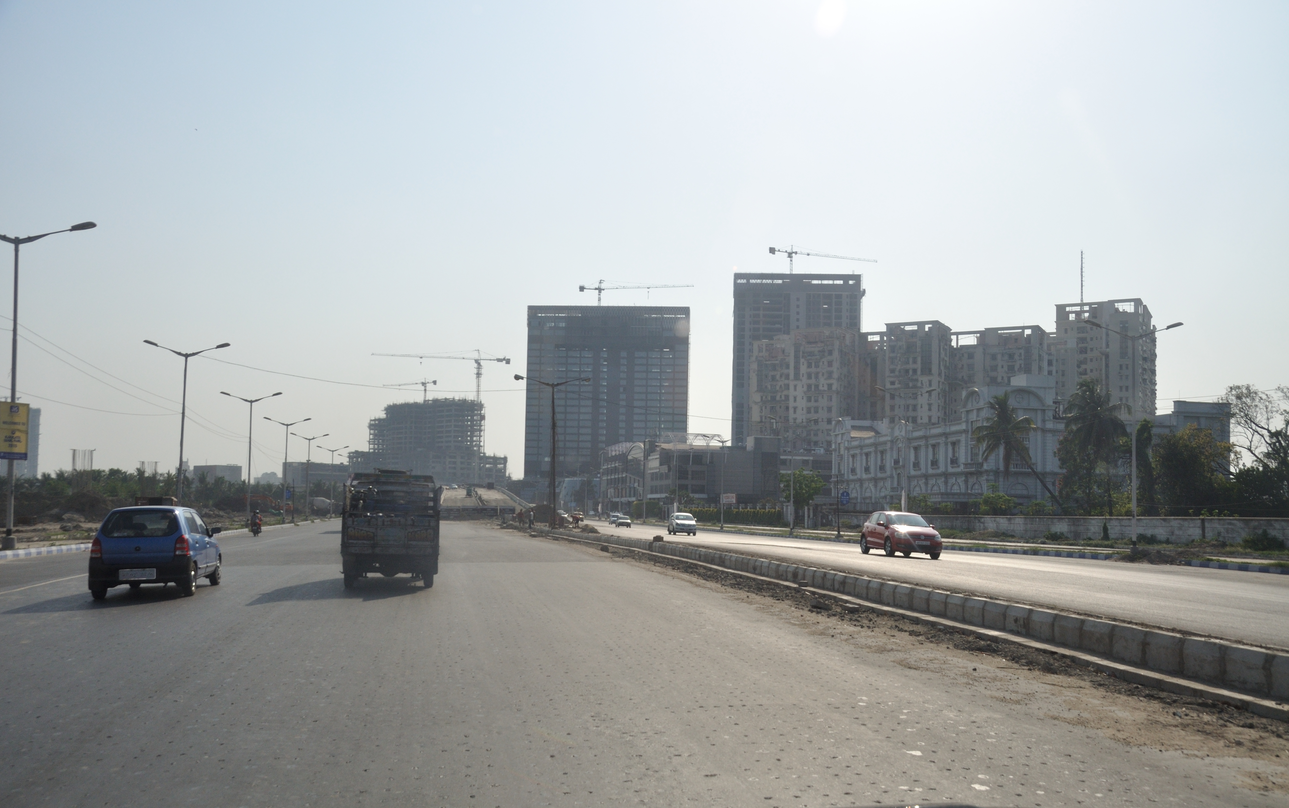 photographed in Kolkata.